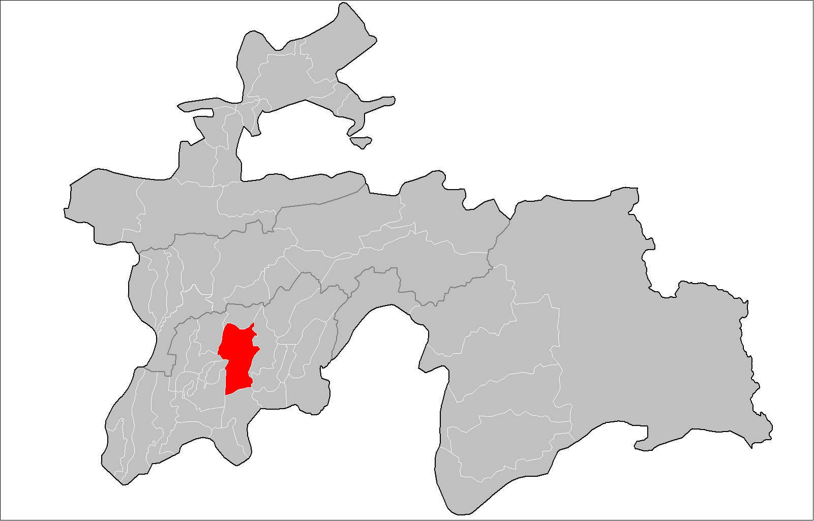 Location of Danghara District in Tajikistan